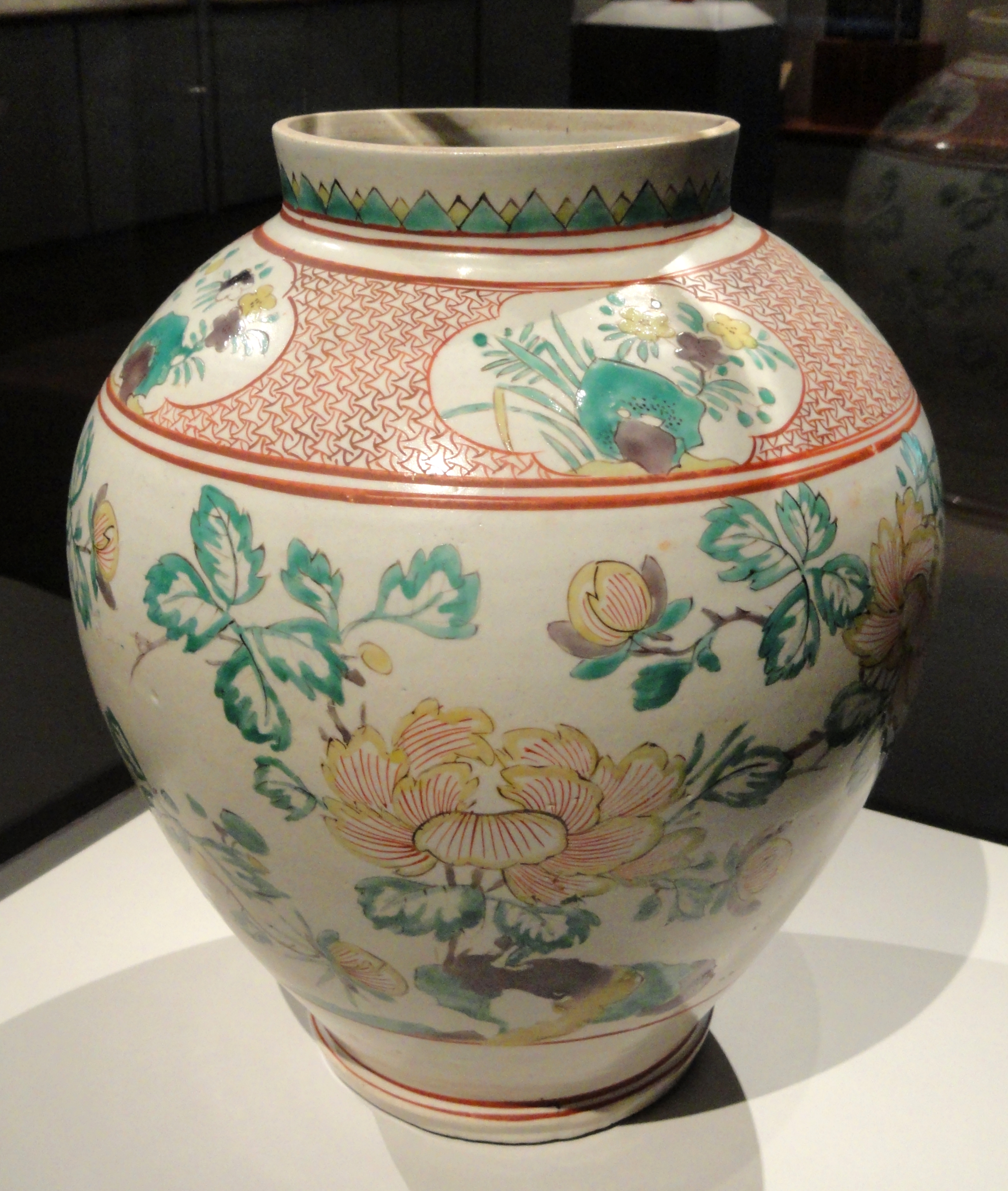 Exhibit in the Art Institute of Chicago, Chicago, Illinois, USA. This artwork is in the public domain because the artist died more than 70 years ago.